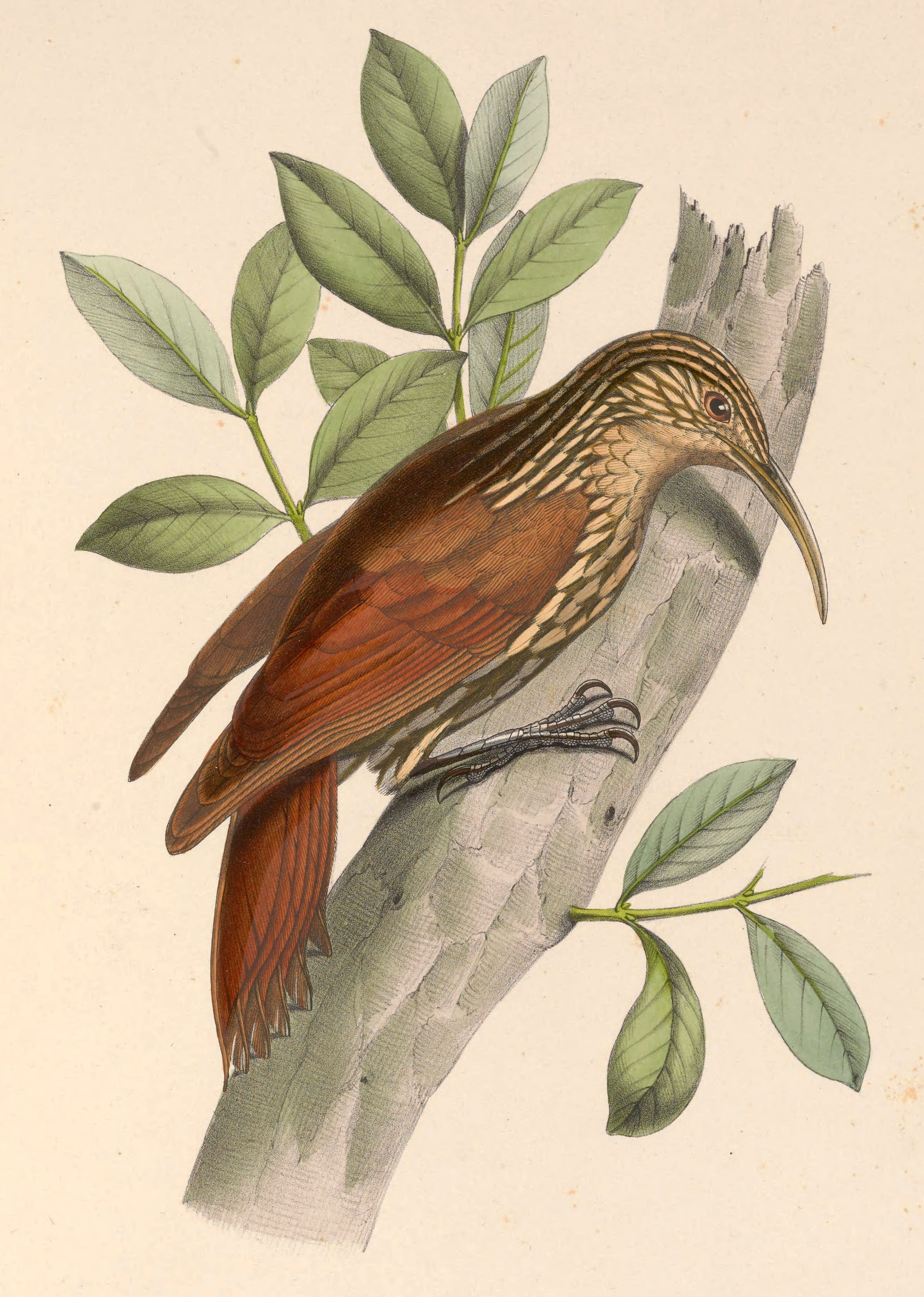 Dendrocolaptes souleyetii = Lepidocolaptes souleyetii (Streak-headed Woodcreeper)